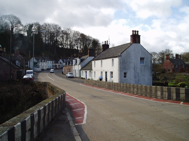 Carronbridge Looking south over the bridge to this small village.